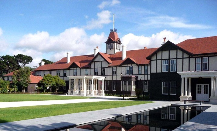 South (front) entrance of the Government House in Newport, Wellington, New Zealand. Visiting dignitaries and other guests arrive at this front lawn.